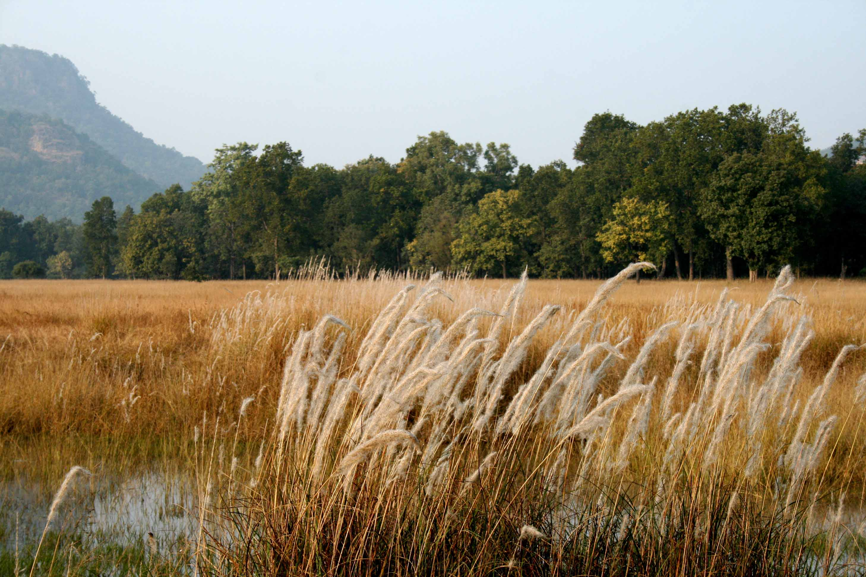 Bandhavgarh National Park is home to 22 species of mammals and 300 species of birds. But visitors are usually most interested to see the elusive tiger. The jeep stopped at a little pond where sometimes a tiger will go to bathe or drink. The density of the tiger population at Bandhavgarh is one of the highest known in India. The park has a large breeding population of leopards, and various species of deer. Maharaja Martand Singh of Rewa captured the first white tiger in this region in 1951.